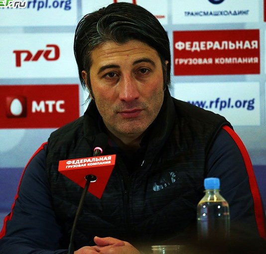 Murat Yakın